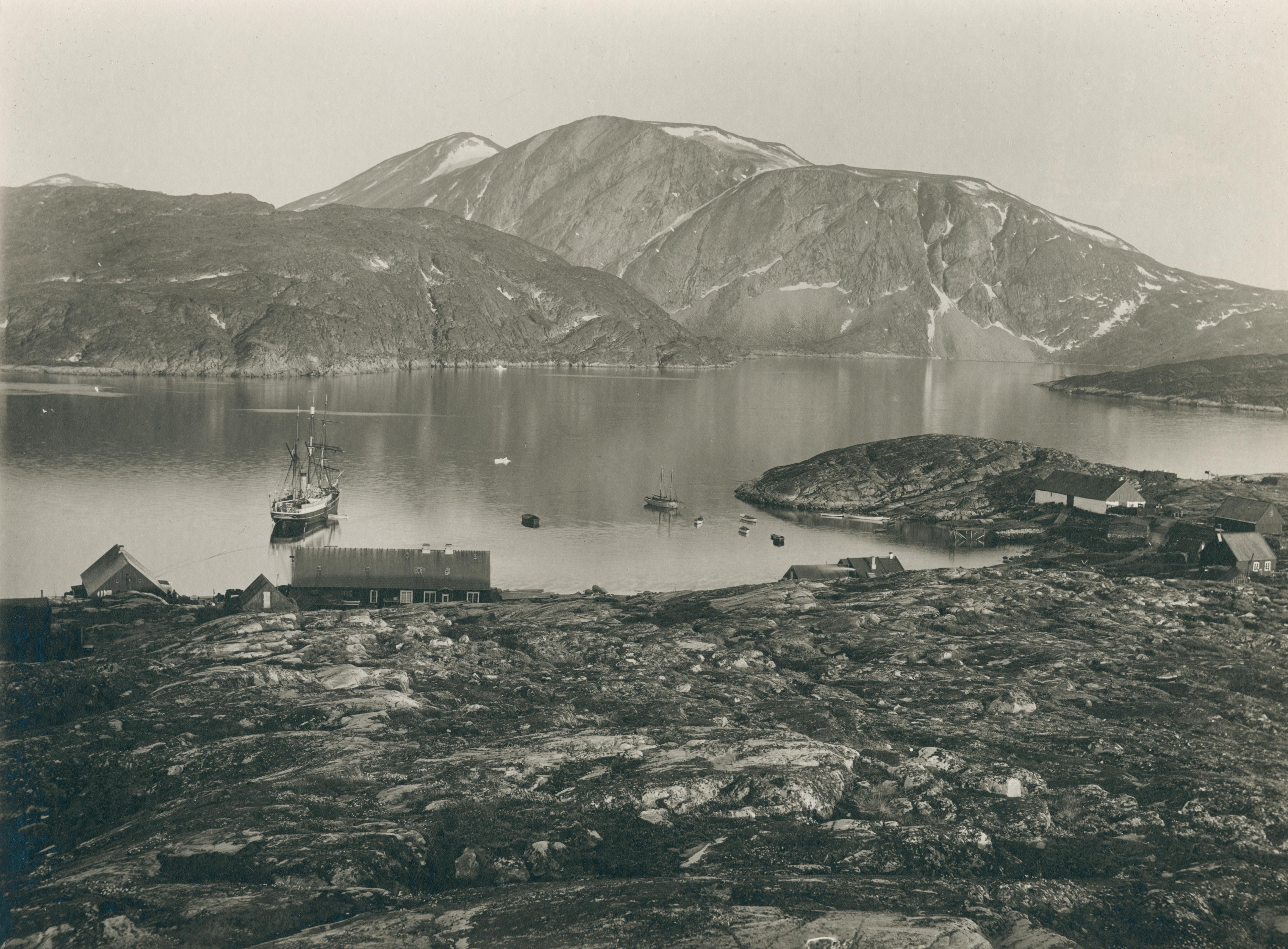 Greenland. The town Qeqertarsuaq - seen from the south.